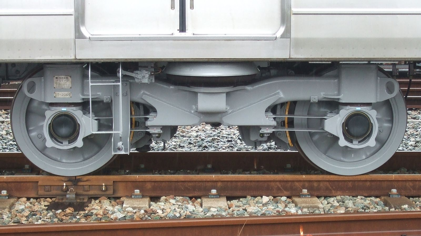 truck manufacturer:Sumitomo Metal Industries truck type:Sumitomo SS-131 / Fukuoka Subway FDT-2 Car type and number:Fukuoka Subway EMU series2000 No.2005 Place:at Meinohama Railway Yard, Fukuoka, Fukuoka, Japan.